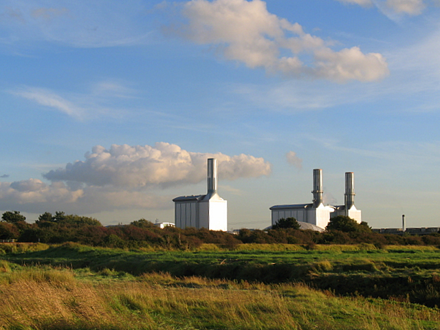 Seabank power station, near Avonmouth, Bristol, was built to meet the high demand for power in the south-west. It has 2 combined gas turbine generators, one commissioned in 2000 and the other in 2001.